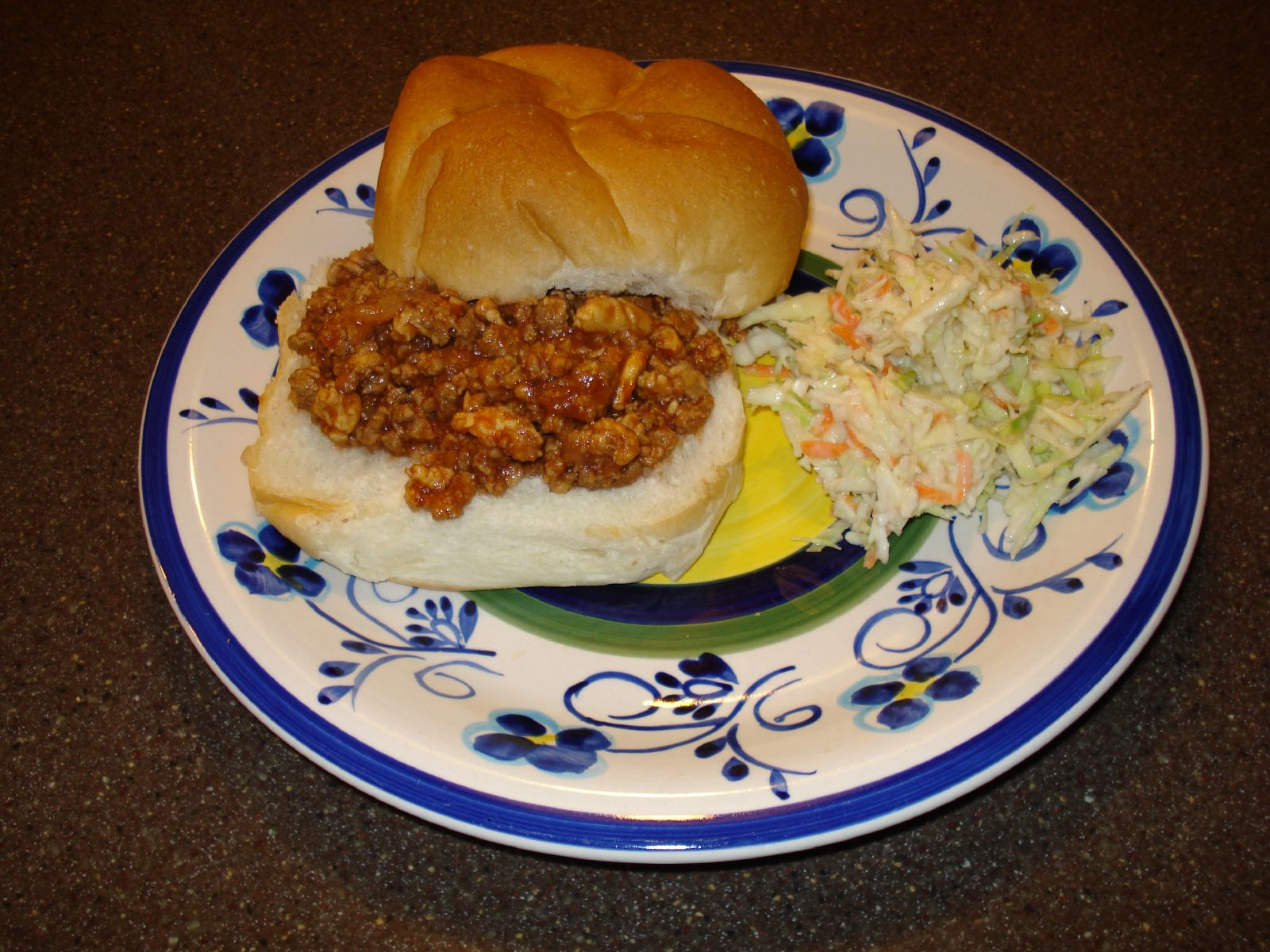 This is a real sloppy joe, also known as a smokey joe with the addition od BBQ sauce. Homemade, not from a can. Made from 1/2 burger & 1/2 turkey. Secret KFC receipe slaw on the side.